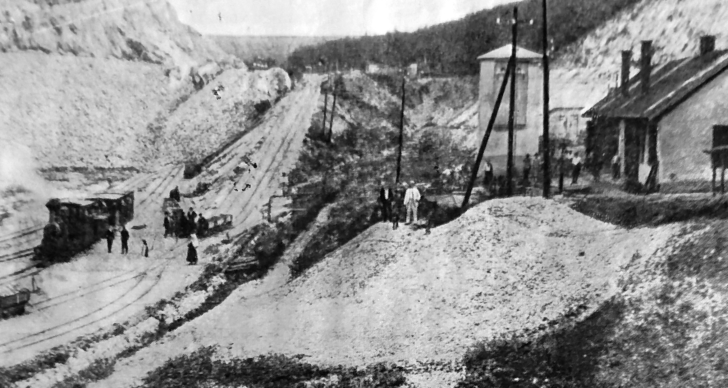 Várhegy Quarry, Hejőcsaba Cement and Lime Factory, Miskolc, Hungary